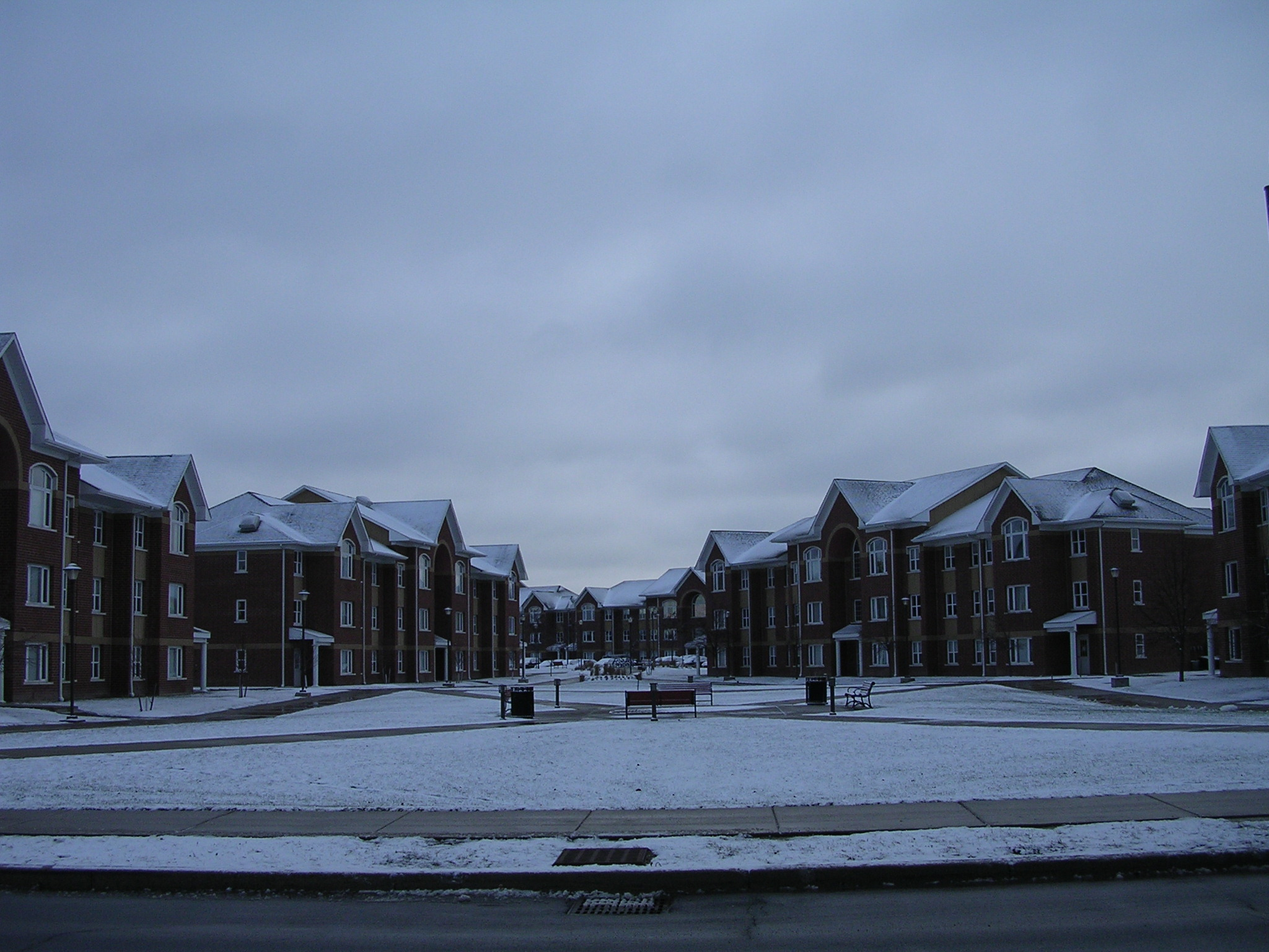 South Lake Village Apartments on North Campus. Housing is provided for over five hundred students in studio and multibedroom apartments along Lake LaSalle, with a convenient walk to academic and student services, as well as athletic facilities.